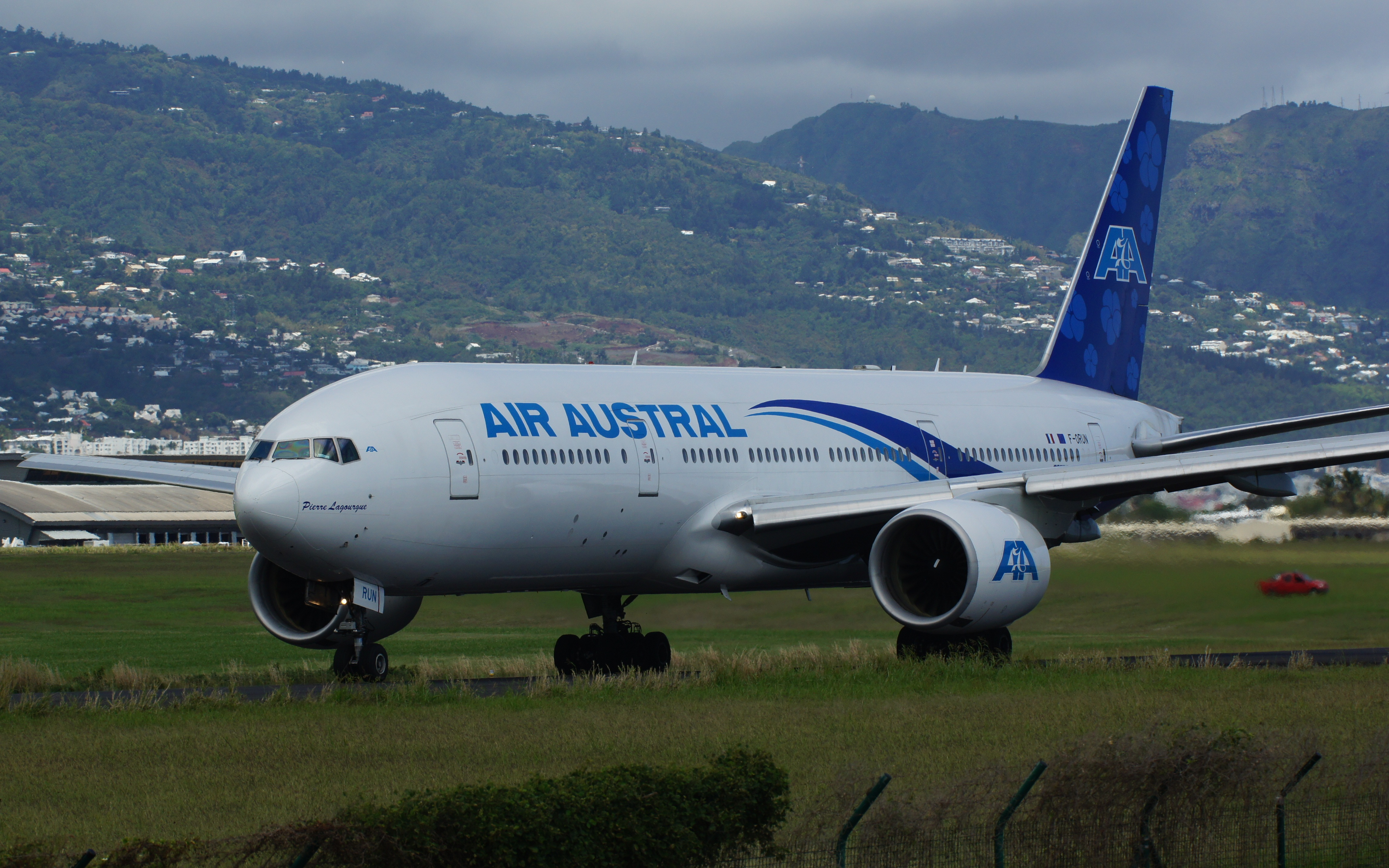 Air Austral Boeing 777-200ER registered F-ORUN at Roland Garros Airport, Réunion.